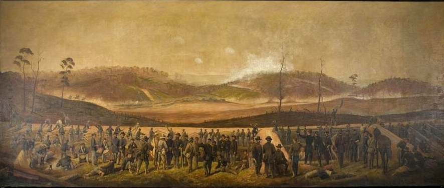 The Battle of Resaca by James Walker. The 12-foot-long oil painting is located at the New York State Military Museum in Saratoga Springs, N.Y. It appears to illustrate a moment in the battle at which the XII Corps, which included Butterfield's 3rd Division, enters the fight.